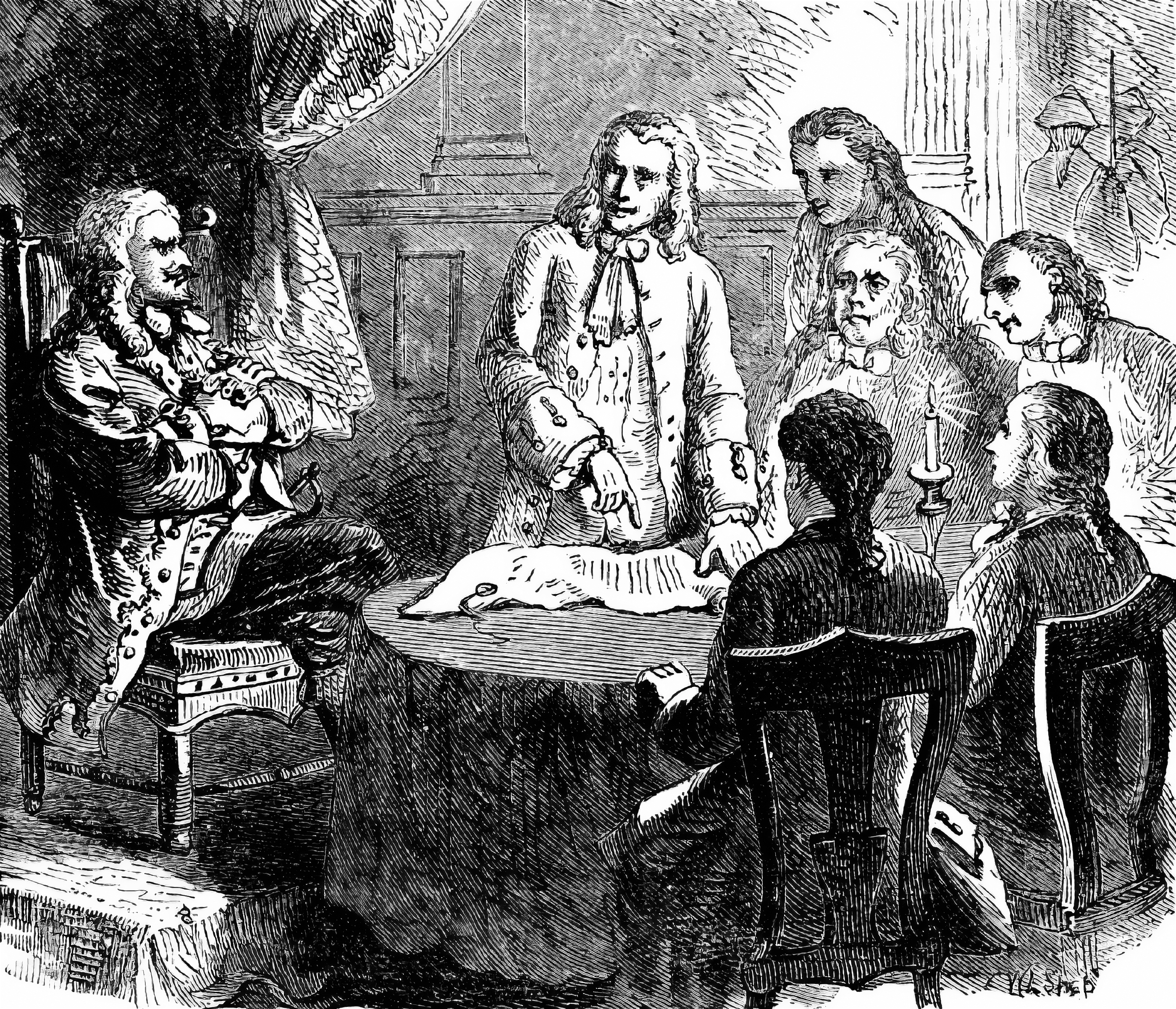 "The Discussion of the Charter" - schoobook illustration from David B. Scott: A School History of the United States (New York: American Book Company, 1884) p. 76. Depicts a famous episode of Connecticut history - Gov. Edmund Andros visit to Hartford in 1687.